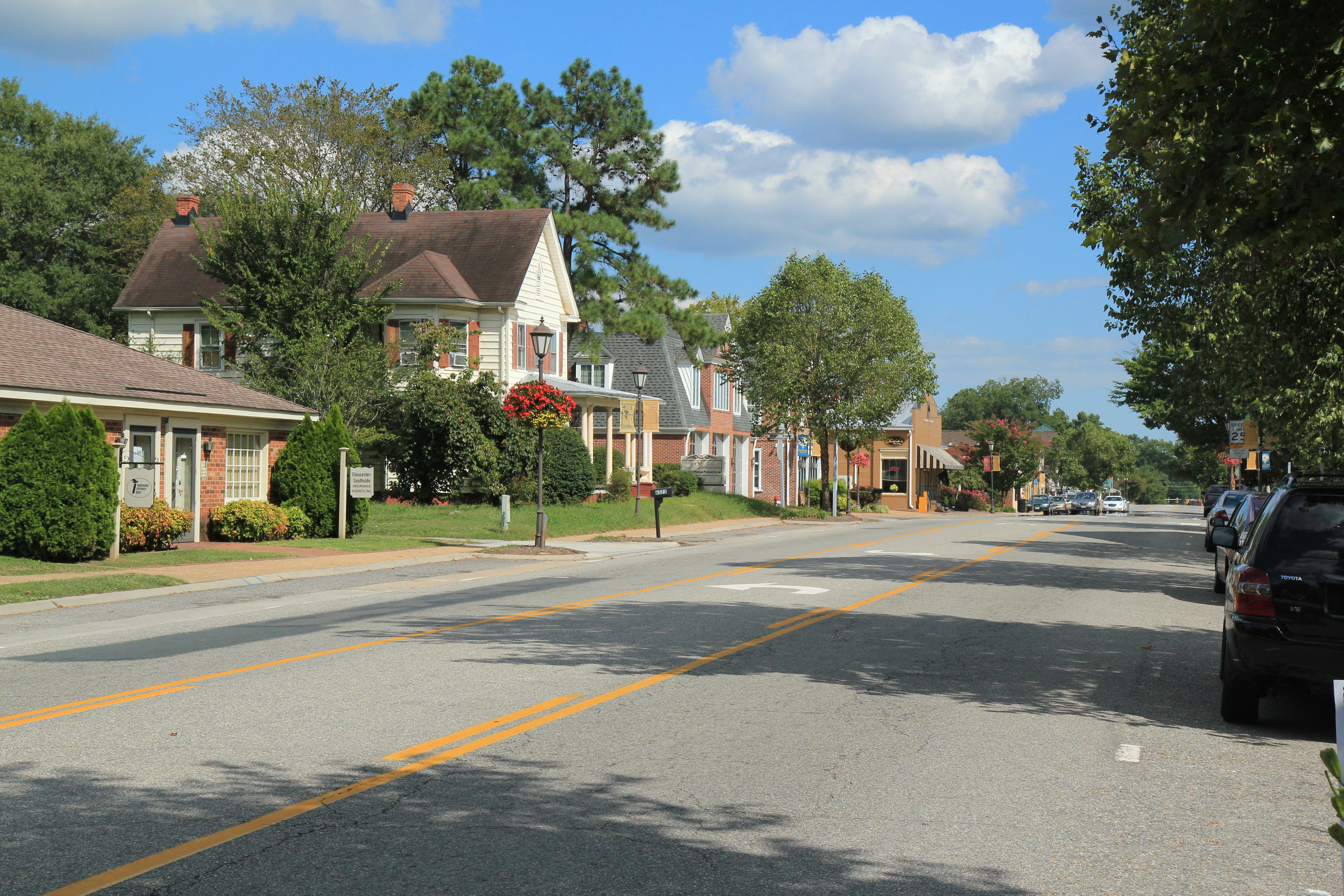 Scenery around the courthouse circle.